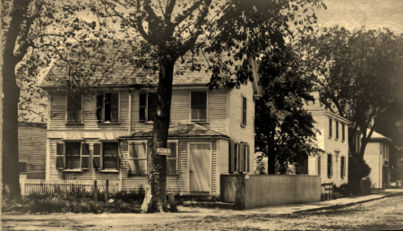 A photo of the Shuttleworth house at the corner of Church and High Streets in Dedham, Massachusetts.